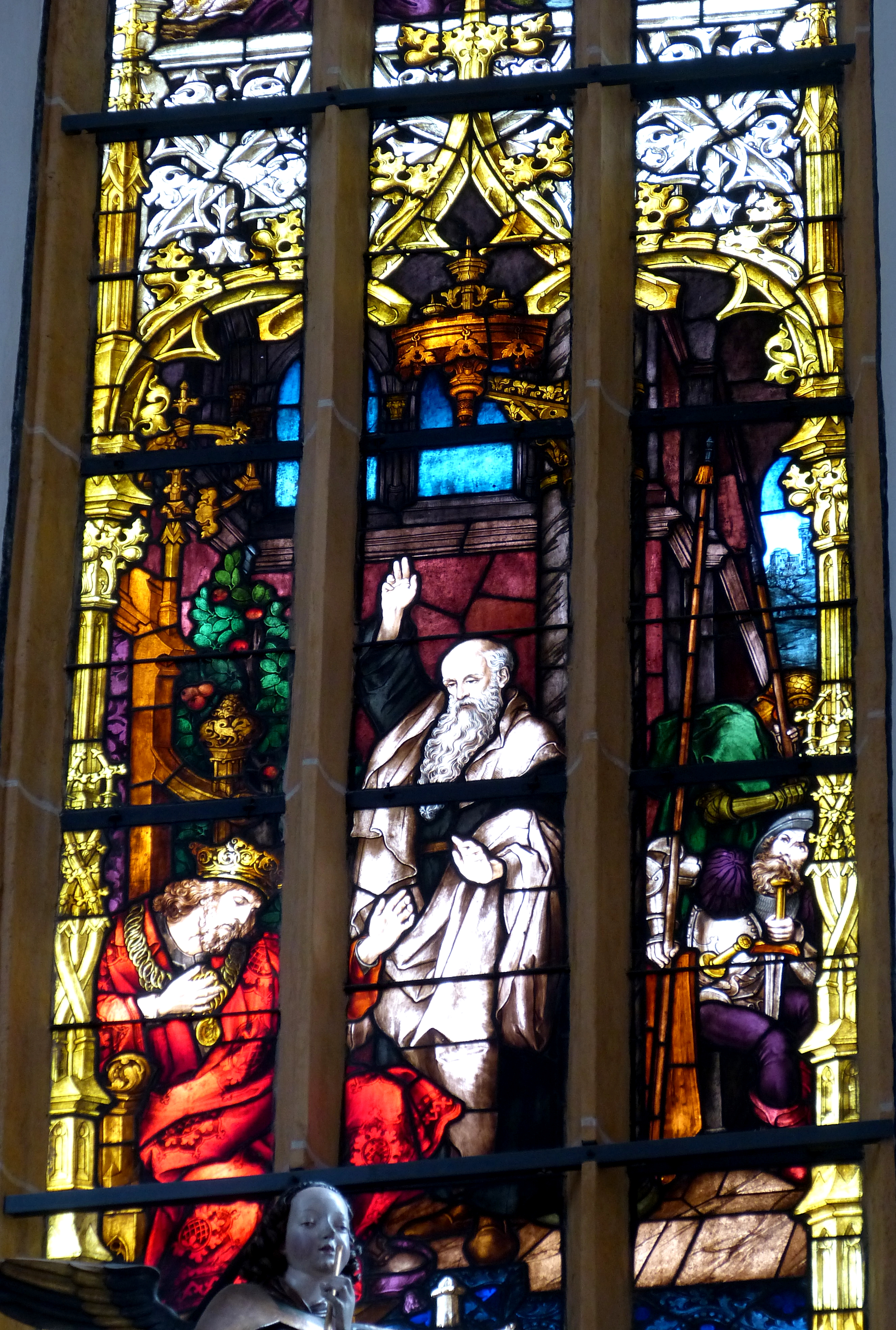 Schwabach - City church. Stained glass window ( 1896 ) by Hofkunstanstalt Mayer ( Munich ), showing king David and Nathan.